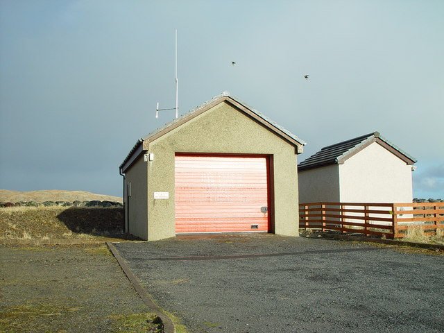 Hillswick Fire Station, Shetland With local retained firefighters the Hillswick Fire Station is little more than a large garage, just big enough to house the small appliance based on a large van.